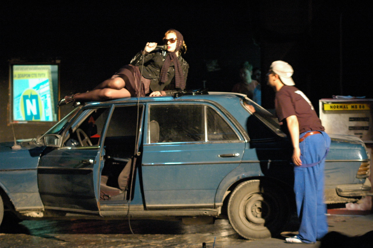 "Nahod Simeon", Drama written by J. S. Popović, director Tomi Janežič, actors Jasna Đuričić and Milovan Filipović, a performance of Serbian National Theatre, Novi Sad, 2005/2006. Srpski (latinica): "Nahod Simeon", drama Jovana Sterije Popovića, režija: Tomi Janežič u izvođenju Srpskog narodnog pozorišta, Novi Sad, 2005/2006; glumci Jasna Đuričić and Milovan Filipović Српски (ћирилица): "Наход Симеон", драма Јована Стерије Поповића, режија: Томи Јанежич у извођењу Српског народног позоришта, Нови Сад, 2005/2006; глумци Јасна Ђуричић и Милован Филиповић